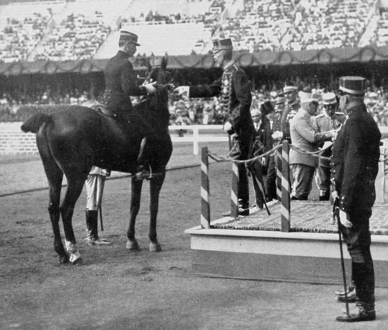 Jean Cariou receives the gold medal in jumping from the King of Sweden at the 1912 Summer Olympics